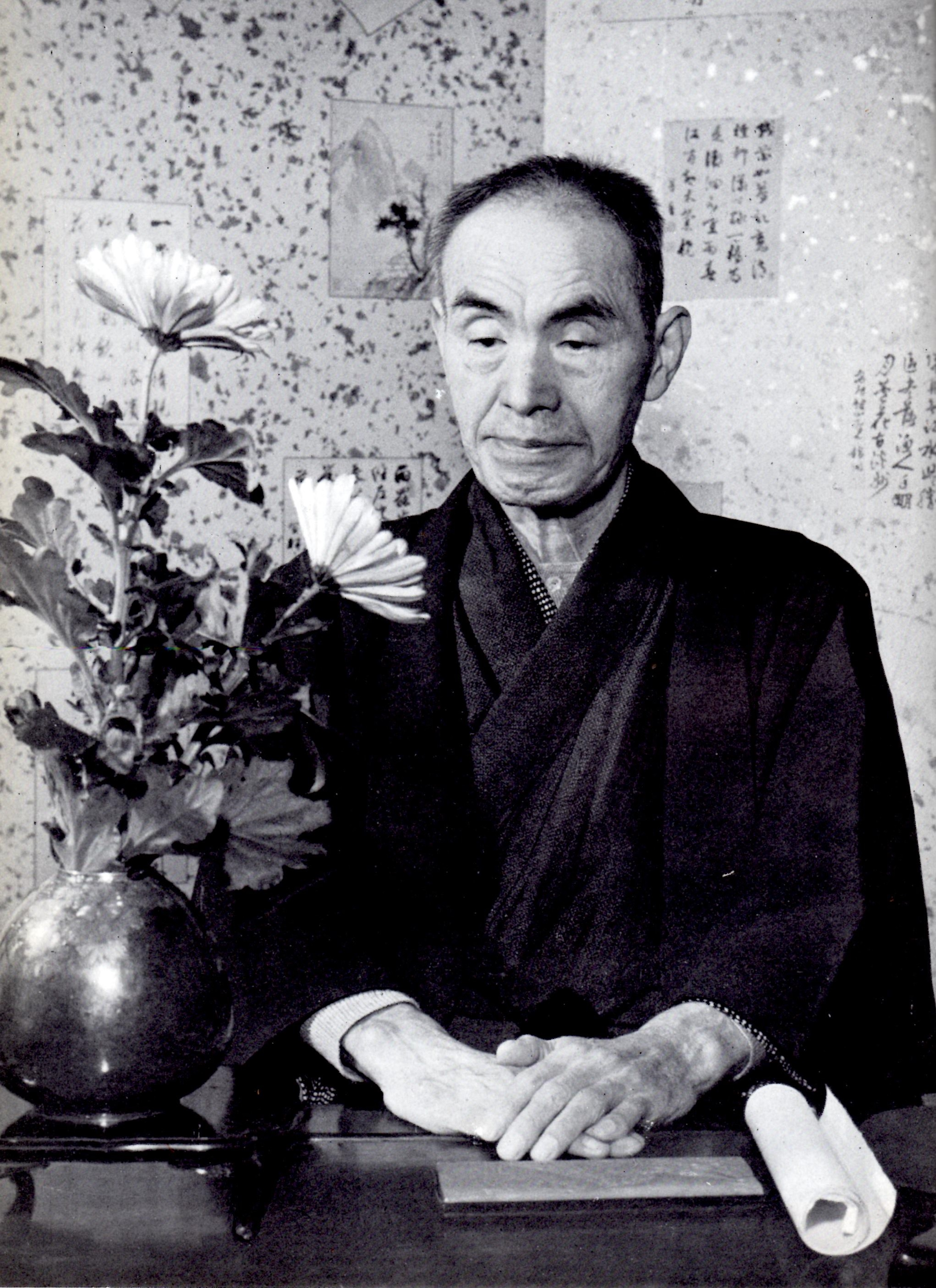 Japanese poet and scholar of English literature, Bansui Doi (1871-1952)